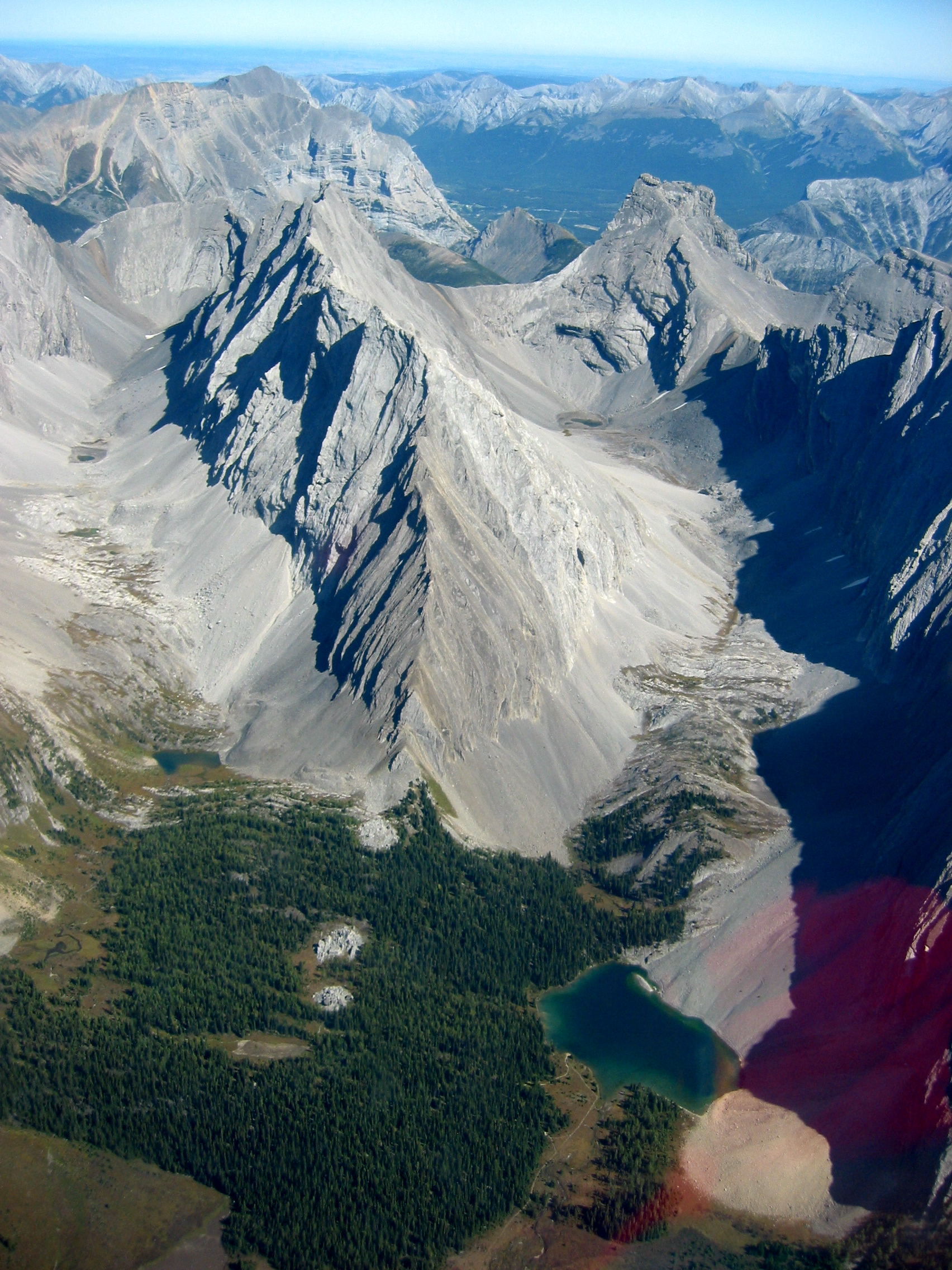 Chester-Lake Fortress Gusty aerial Bottom Right: Chester Lake. Top Right: The Fortress. Top Left/Mid: Gusty Peak. The valley directly above Chester Lake leads to a small lake at the foot of The Fortress. The valley on the left of the frame is named Three Lakes Valley.